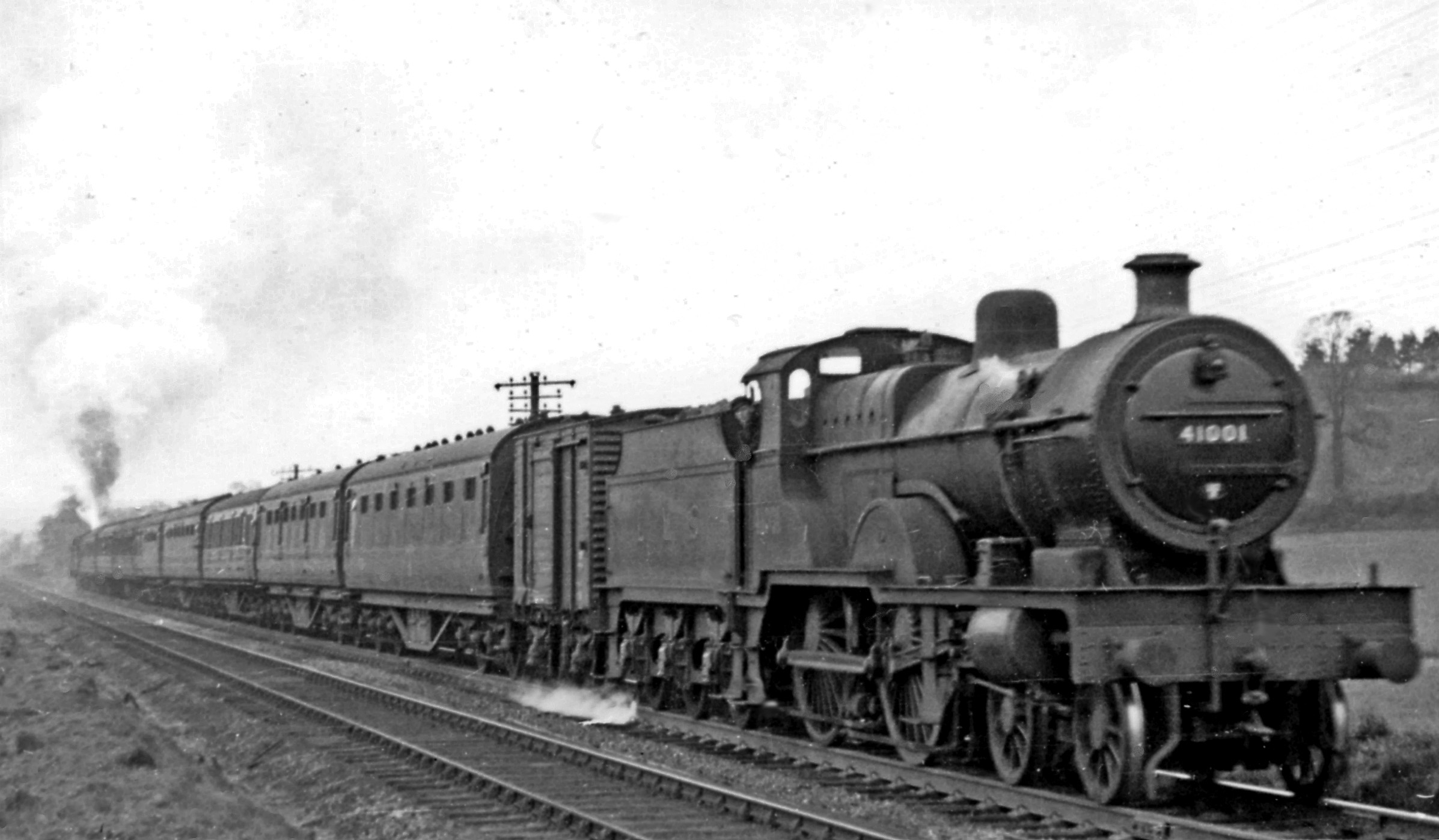 Up stopping train ascending Lickey Bank with a Compound 4-4-0. View SW down towards Bromsgrove: ex-Midland Birmingham - Bristol main line. No. 1001 at the head is one of the original Johnson/Smith three-cylinder 7'0" compound 4-4-0s of 1902, rebuilt 1914 by Deeley and lasting only until 11/51. It has two 0-6-0T bankers for its 7 - 8 coach train.